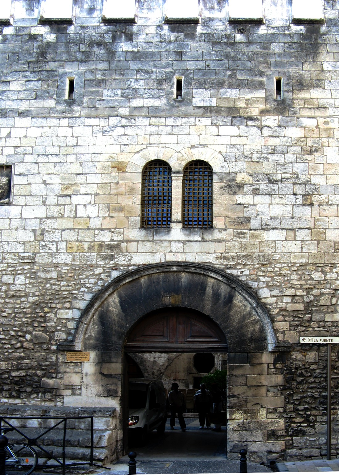 Palace of podestats (Arles)